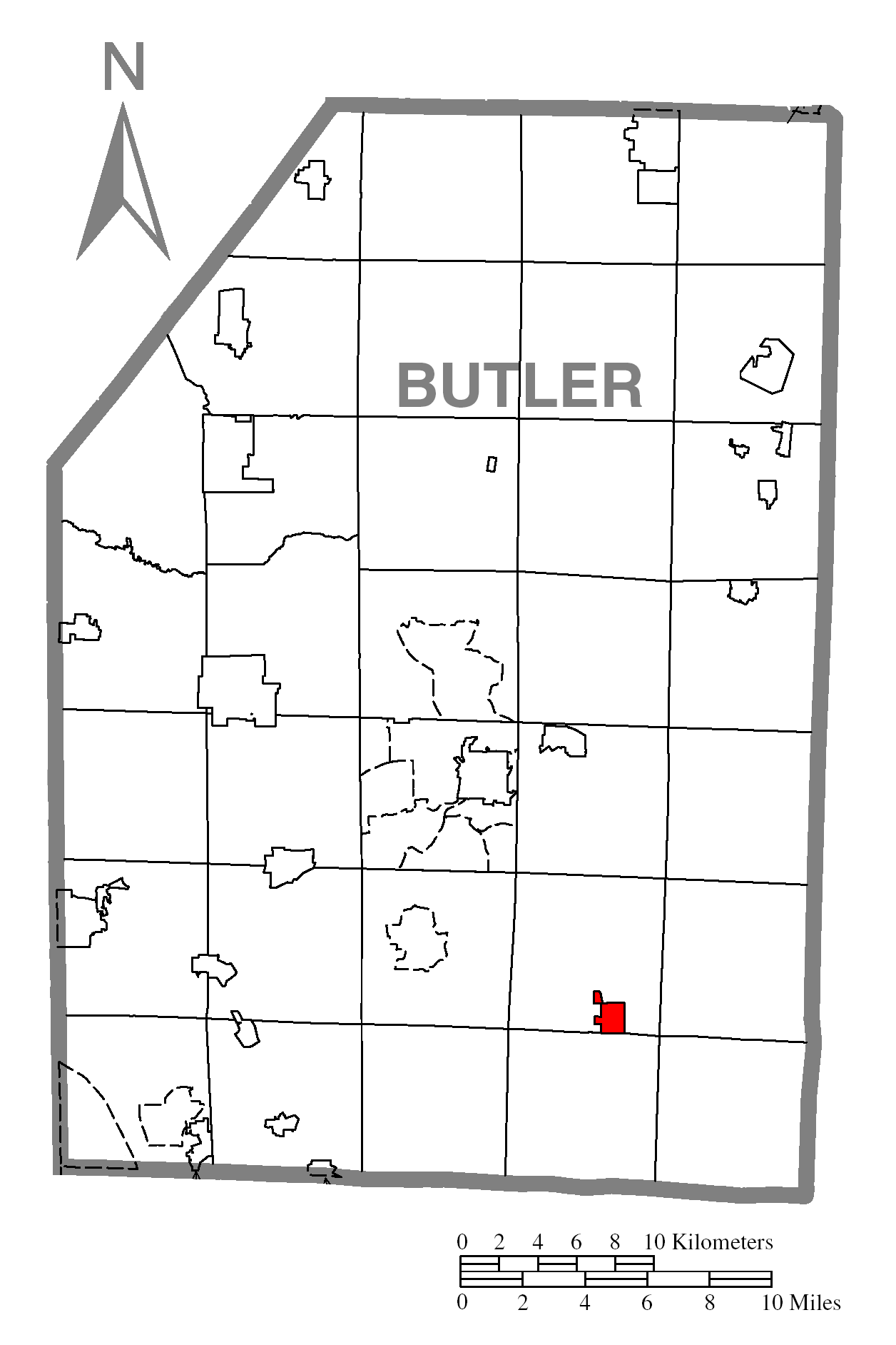 A map of Butler County showing Saxonburg, Pennsylvania (alternate) highlighted on the map.